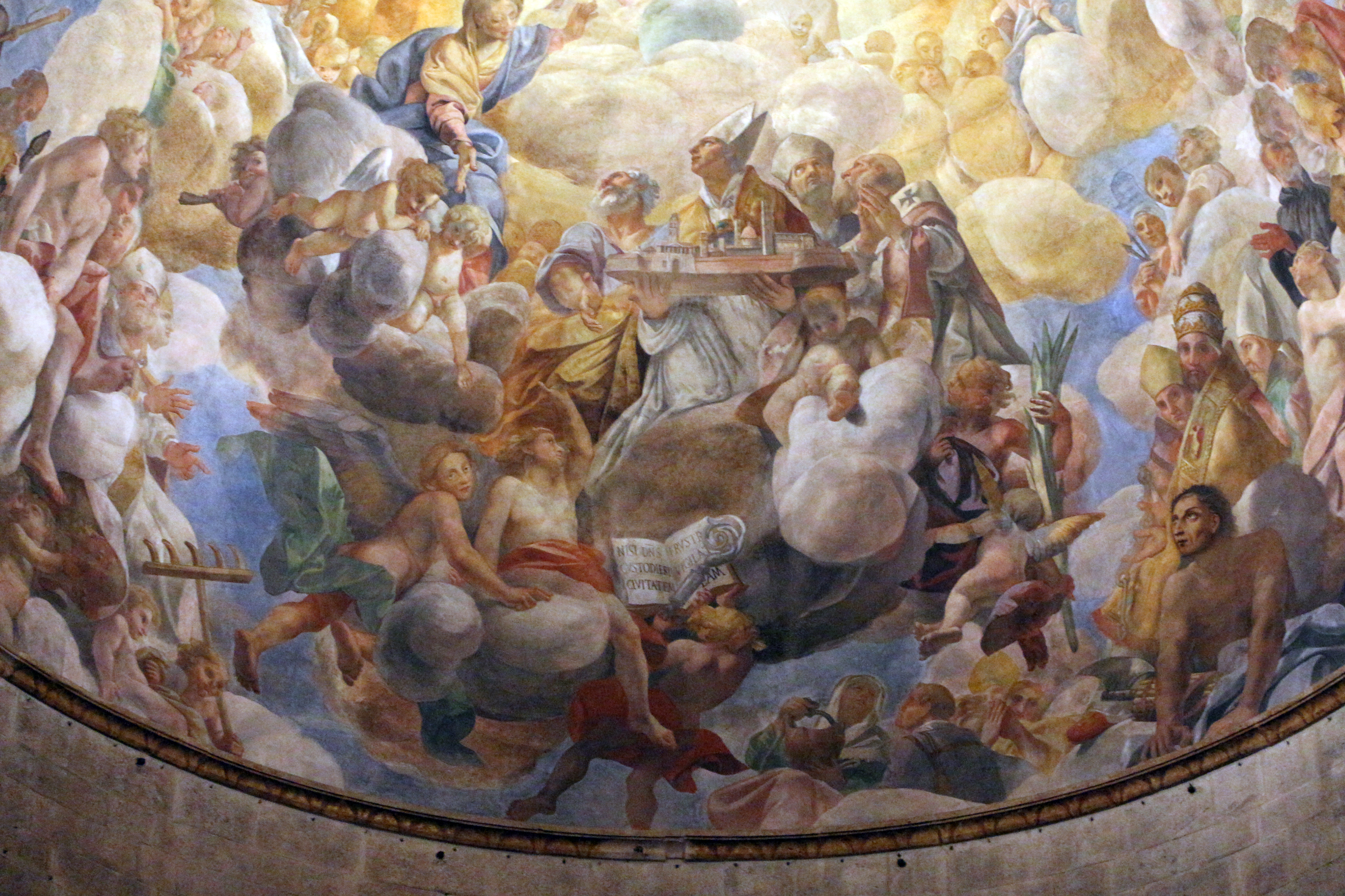 Duomo (Lucca) - Interior